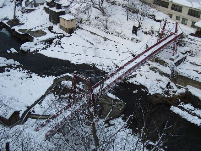 Takayama Bridge of the Toyohira River, Sapporo, Japan.